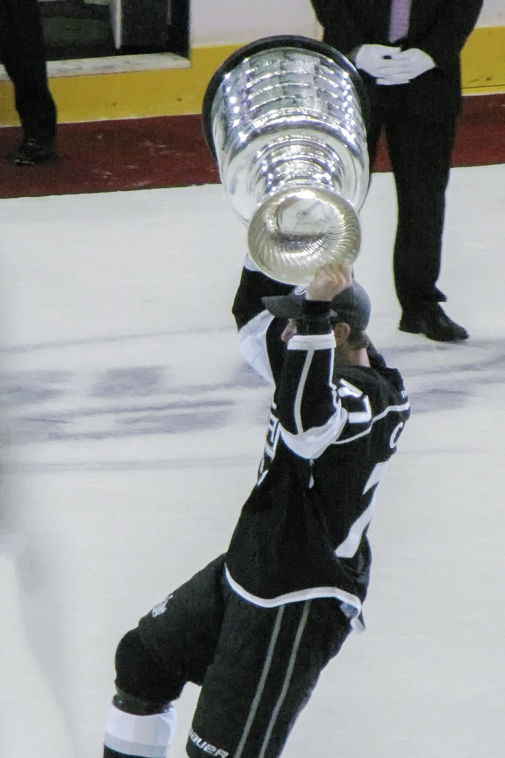 In April 2013 the Kings posted a nice video about receiving The Stanley Cup